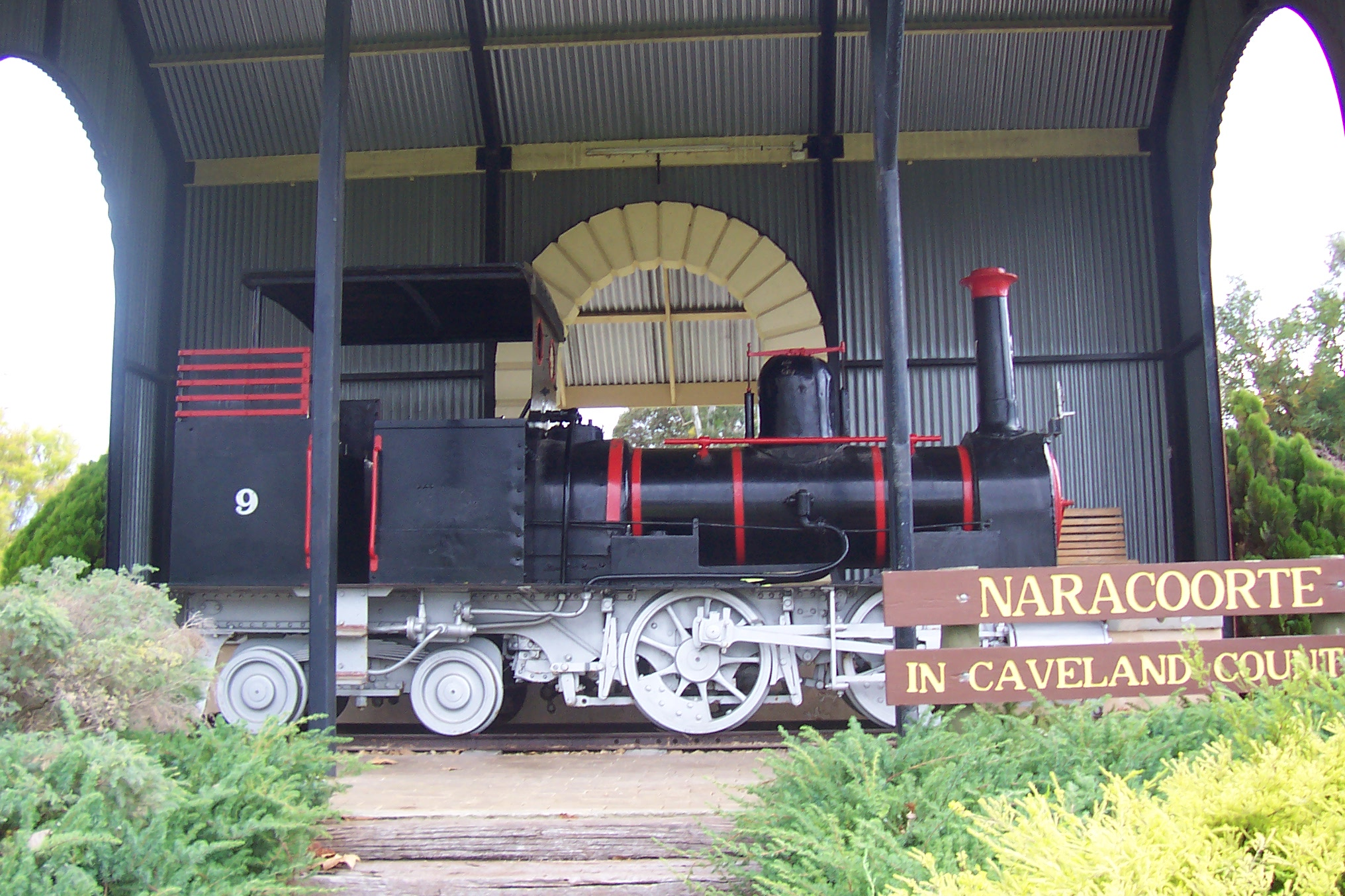 S.A.R. V class entered service 1877 on Naracoorte-Kingston railway. Built by Beyer, Peacock and Company of Manchester, England. Transferred to northern division in 1888 until 1953. On display in Naracoorte since 1955.